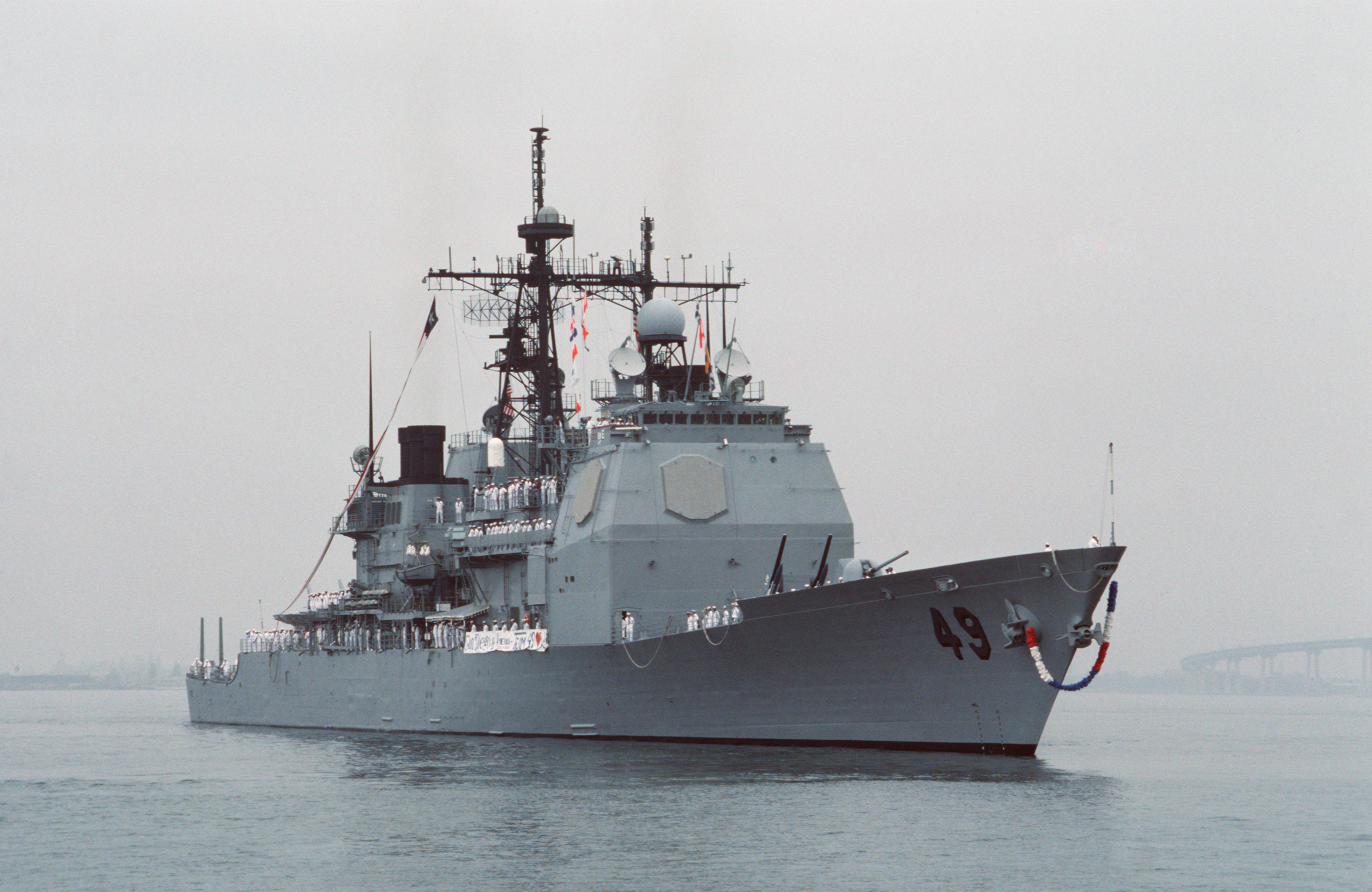 A starboard bow view of the guided missile cruiser USS VINCENNES (CG 49) as it approaches port. The VINCENNES. is returning from a six-month deployment to the Western Pacific, Indian Ocean and Arabian Gulf. Location: SAN DIEGO, CALIFORNIA (CA) UNITED STATES OF AMERICA (USA)